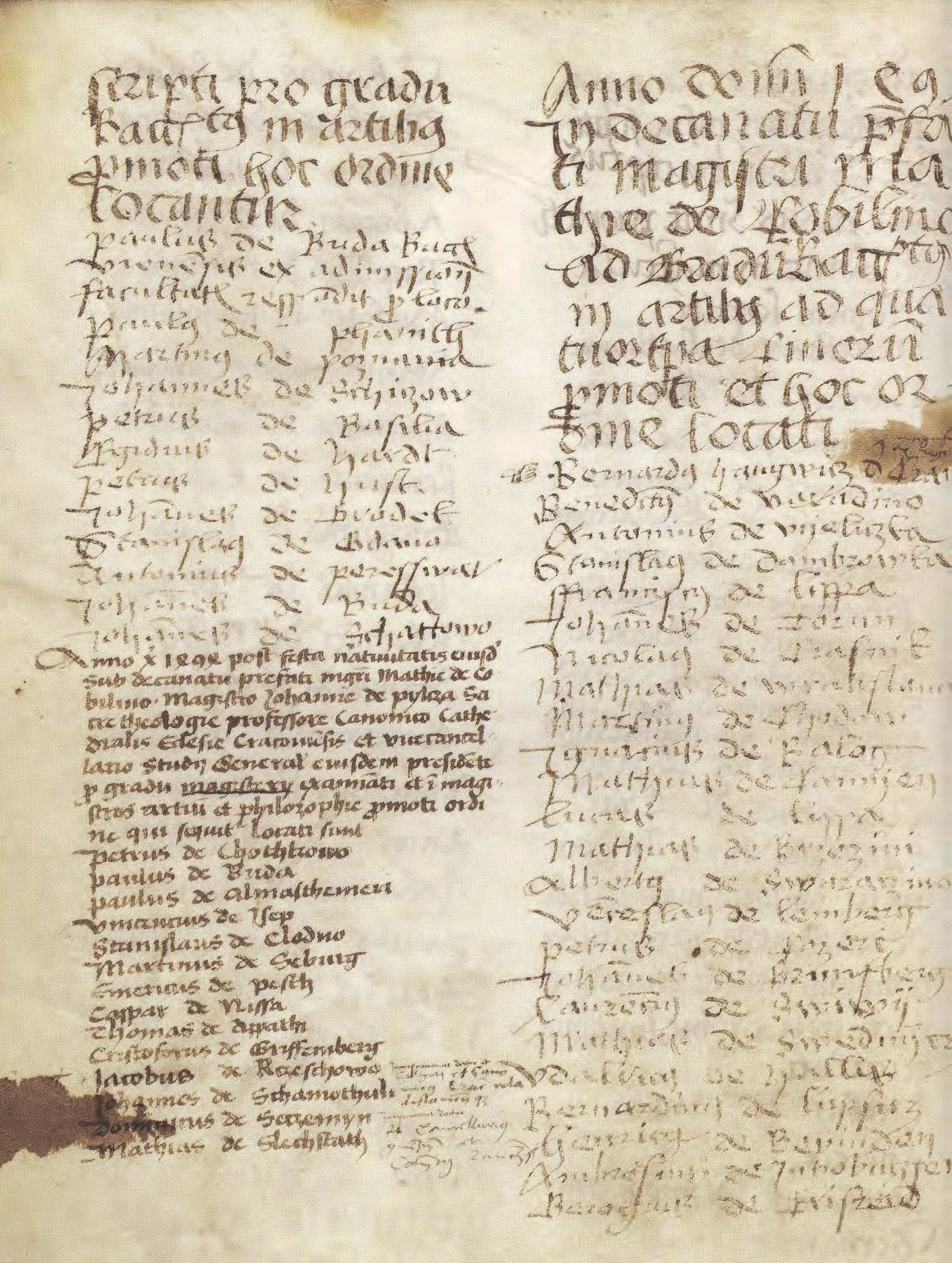 Matriculation register of the university of Cracova with entry “Henricus de Bevinden“ in the right column, third entry from below.